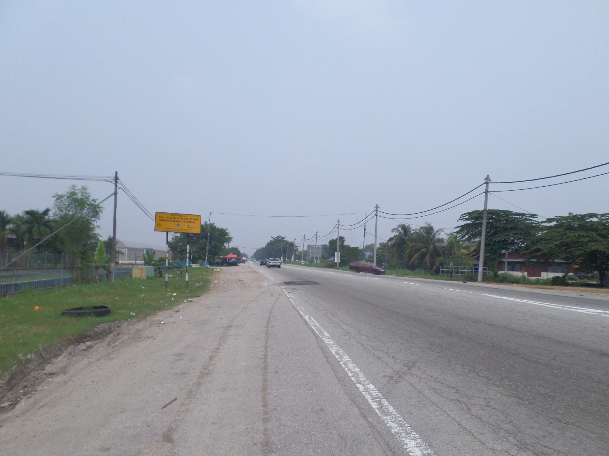 Kebun Street, Shah Alam, Petaling, Selangor, Malaysia